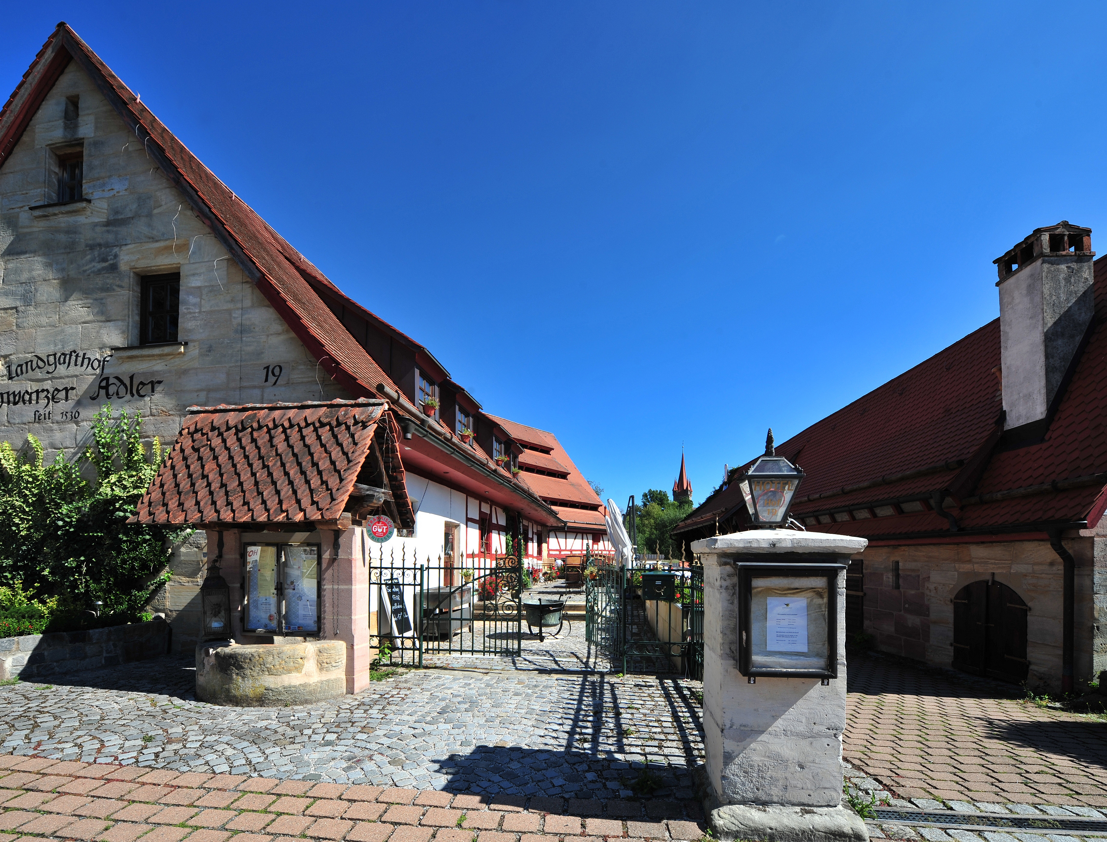 Heroldsberg Hauptstr. 19 This is a photograph of an architectural monument.